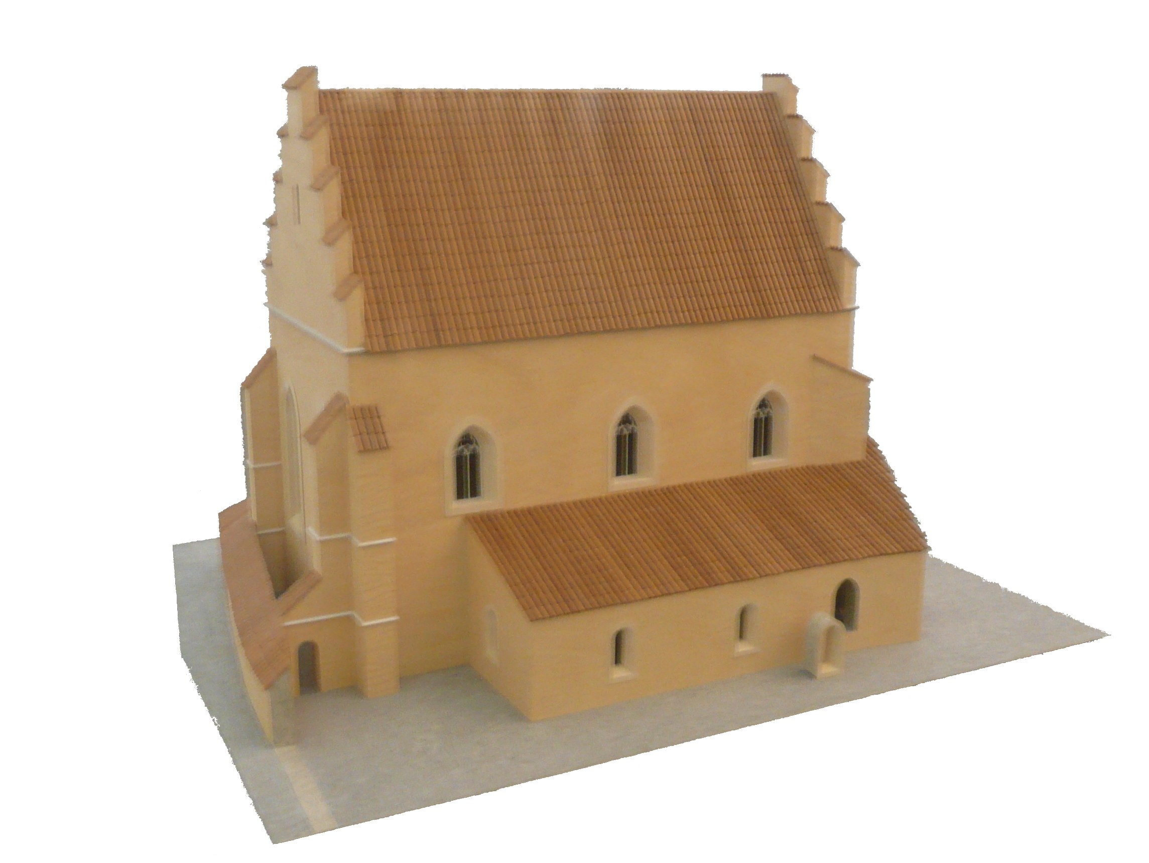 Model of the medieval synagogue at Judenplatz. around 1400. Model made out of various kinds of wood, scale 1:25. Design: Heidrun Helgerth, Franz Hnizdo. Realisation Atelier Franz Hnizdo.